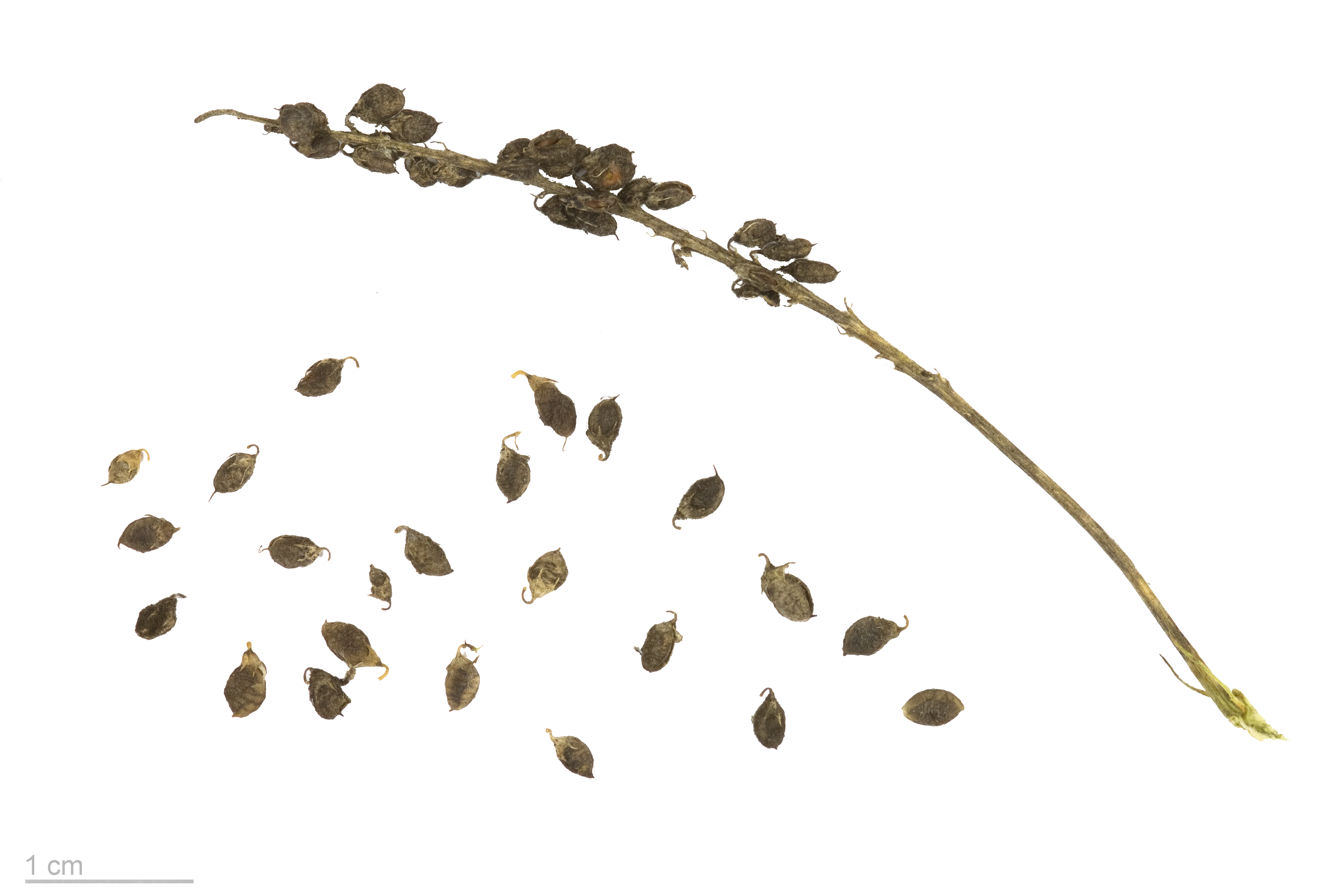 Bokhara clover , fruits and seeds